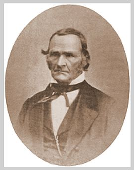 Photo of Jesse Root Grant, father of Ulysses S. Grant